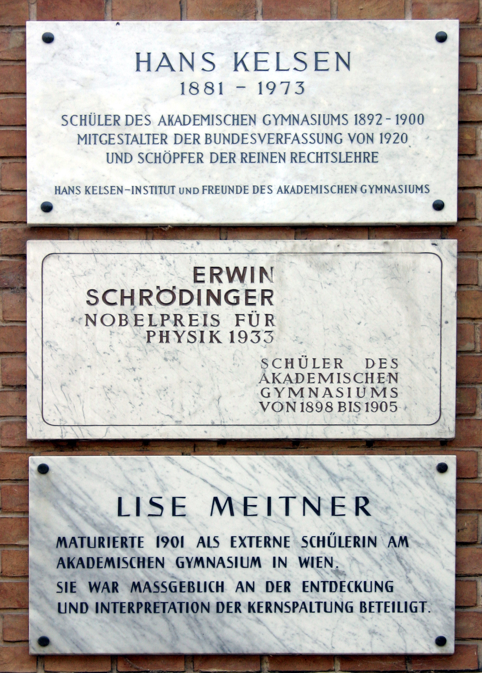 Akademisches Gymnasium, Vienna